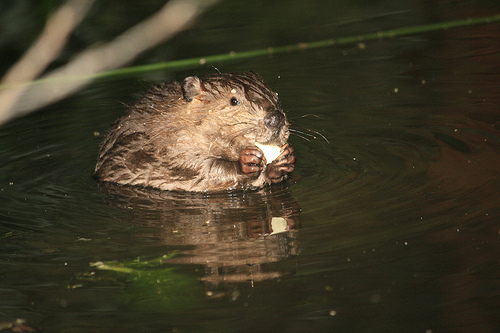 Baby beaver nibbles some food in Martinez June 2010